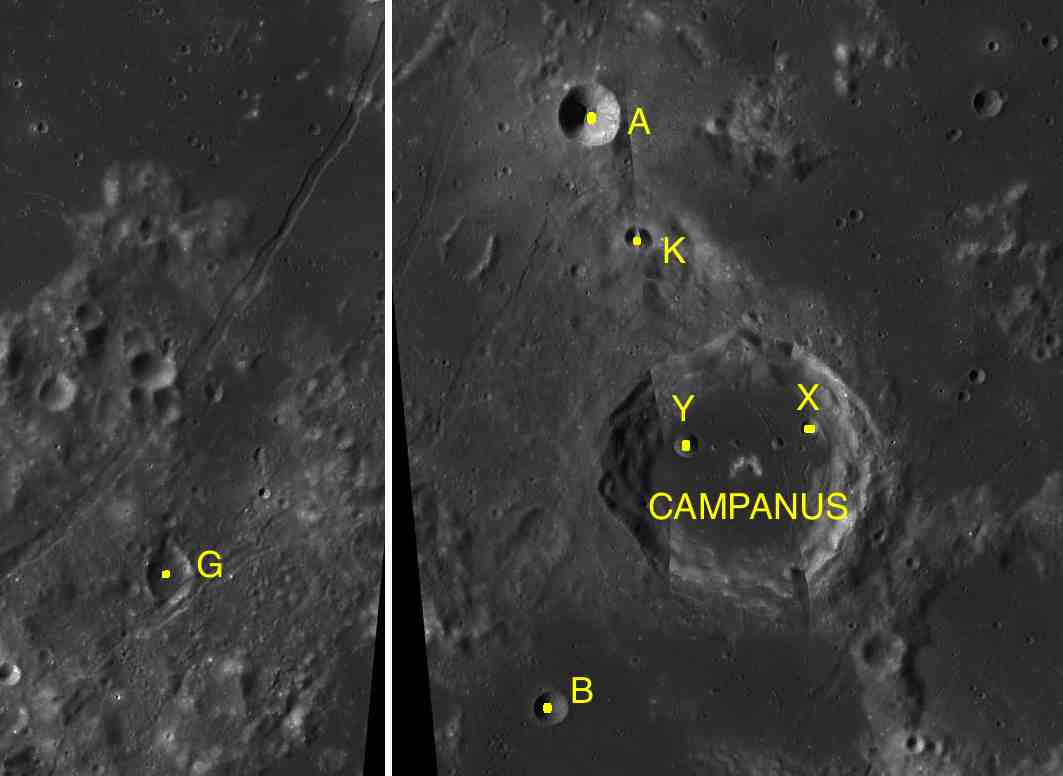 Parts of the charts LAC-93, LAC-94 used for the presentation